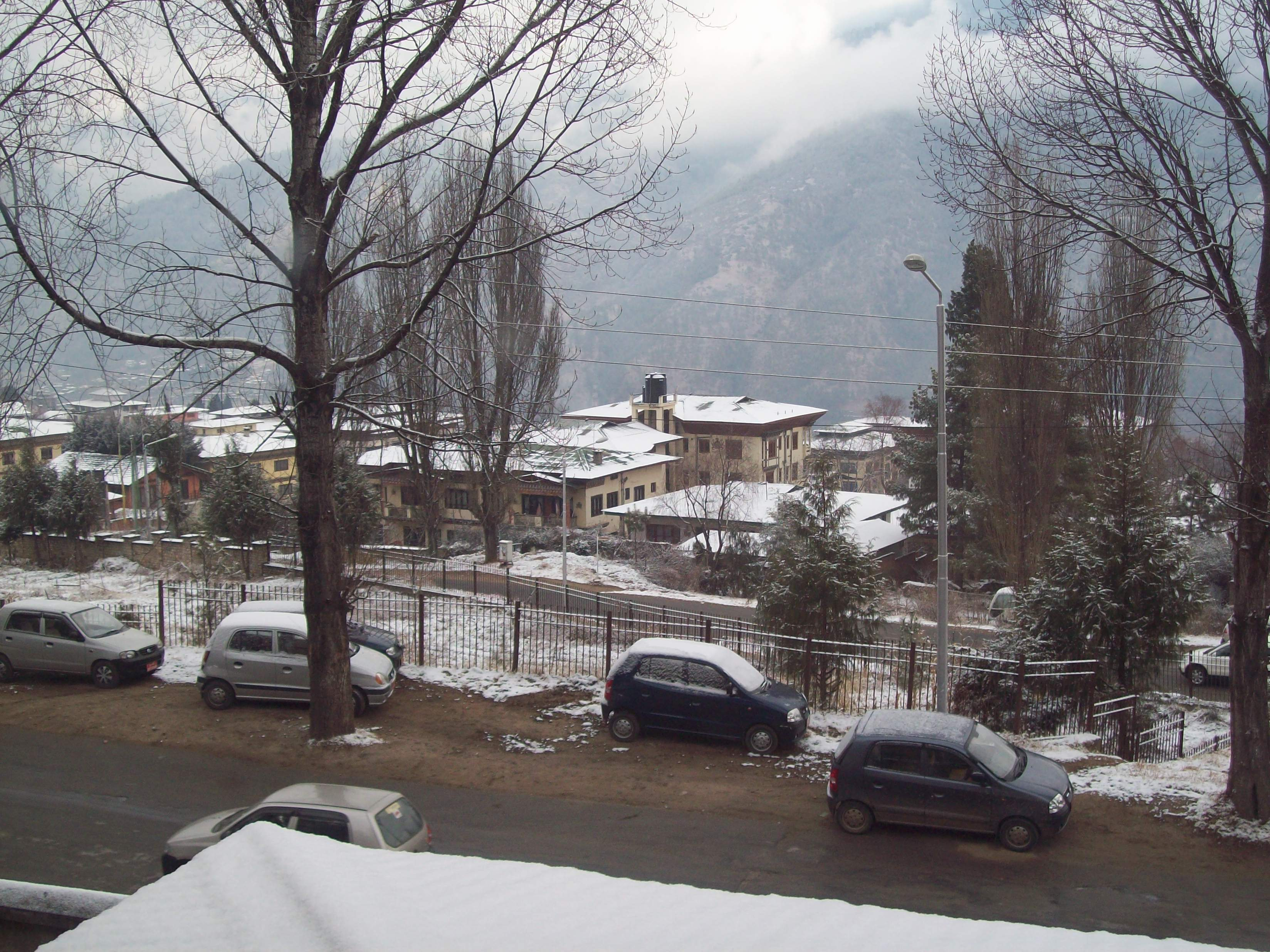 Snowfall in Thimphu